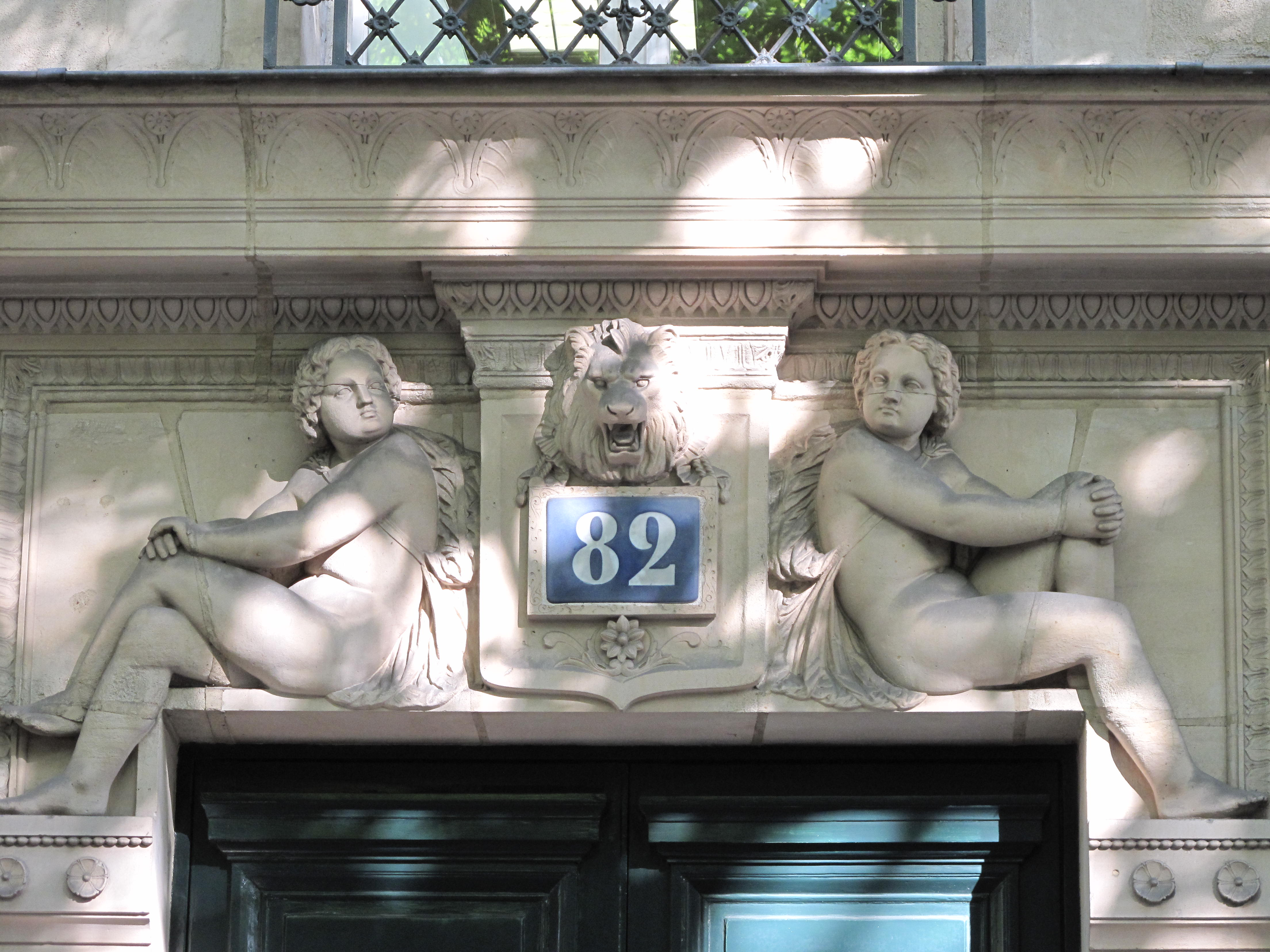 Linteau sculpté du 82 boulevard de Sebastopol, Paris 3rd arr.